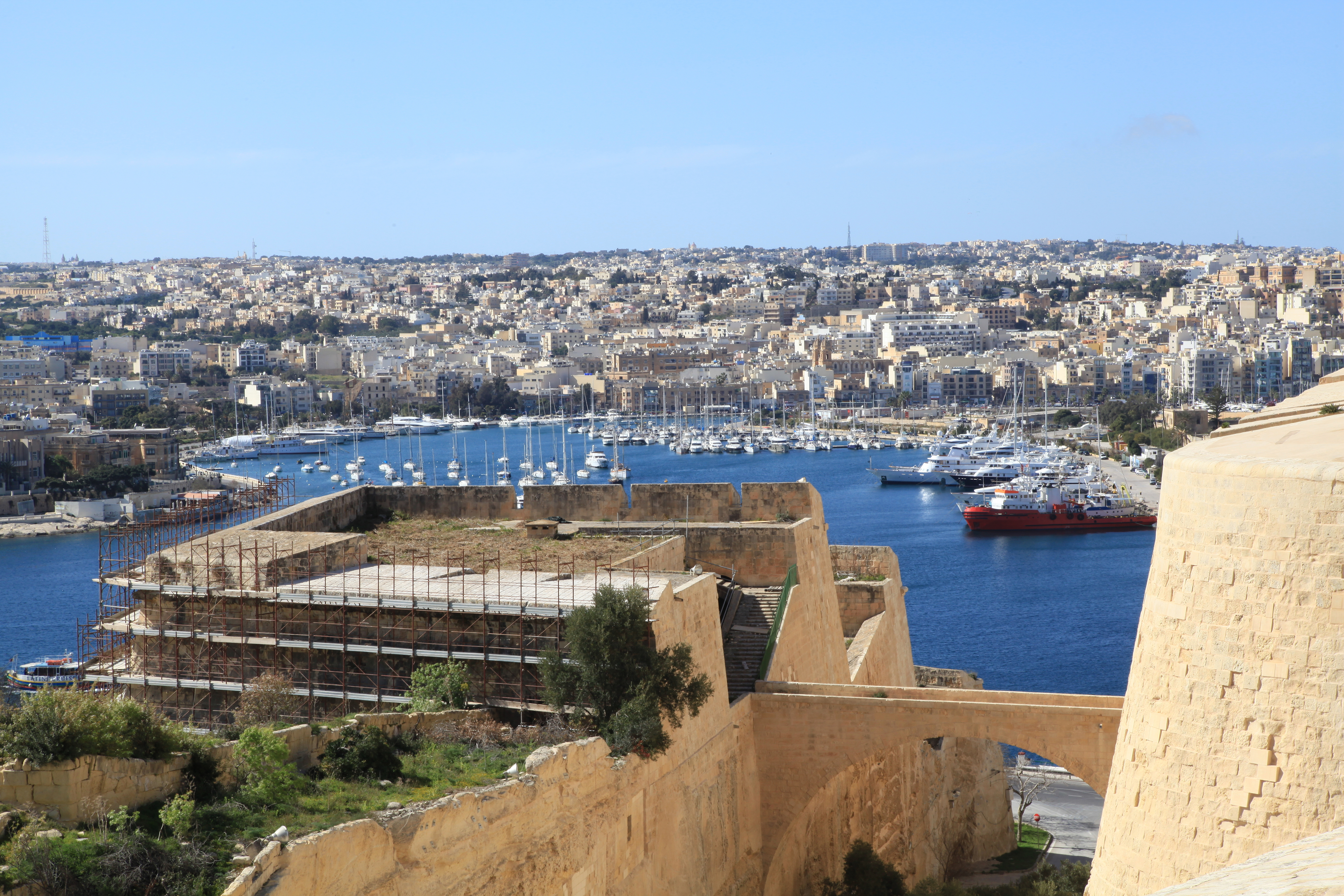 View from the St. Michael's Bastion to the Michael's Counterguard in Valletta, Malta